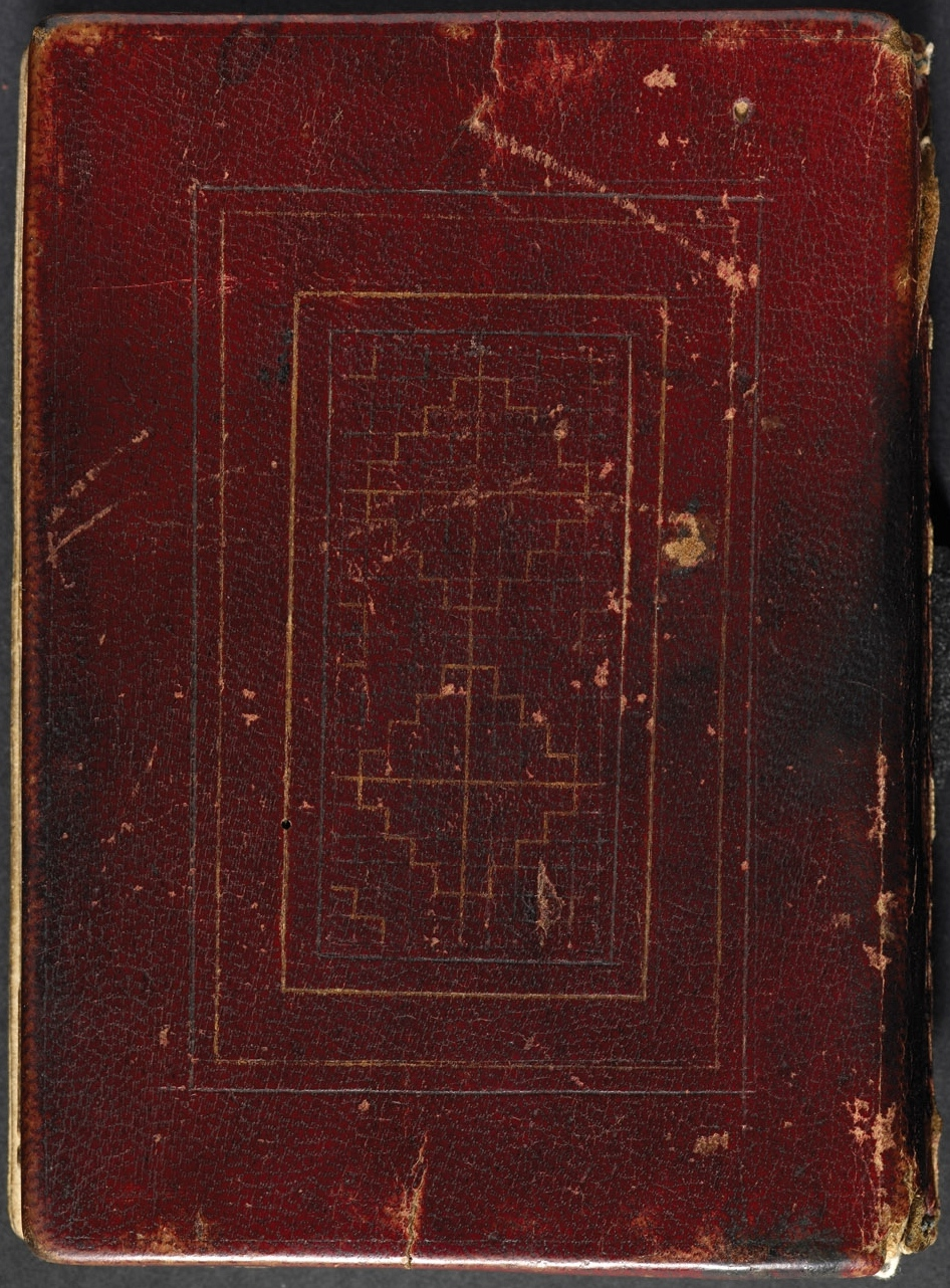 Rear cover of the St Cuthbert or Stonyhurst Gospel, Anglo-Saxon, c. 700